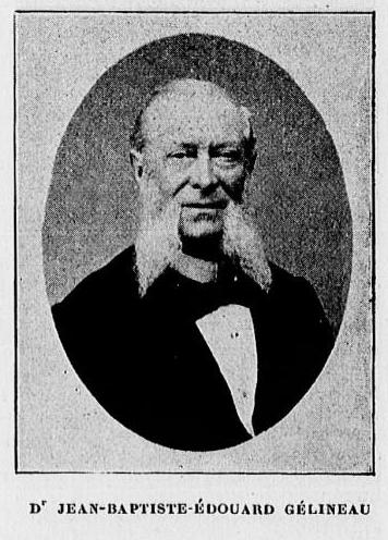 Jean Baptiste Edouard Gélineau